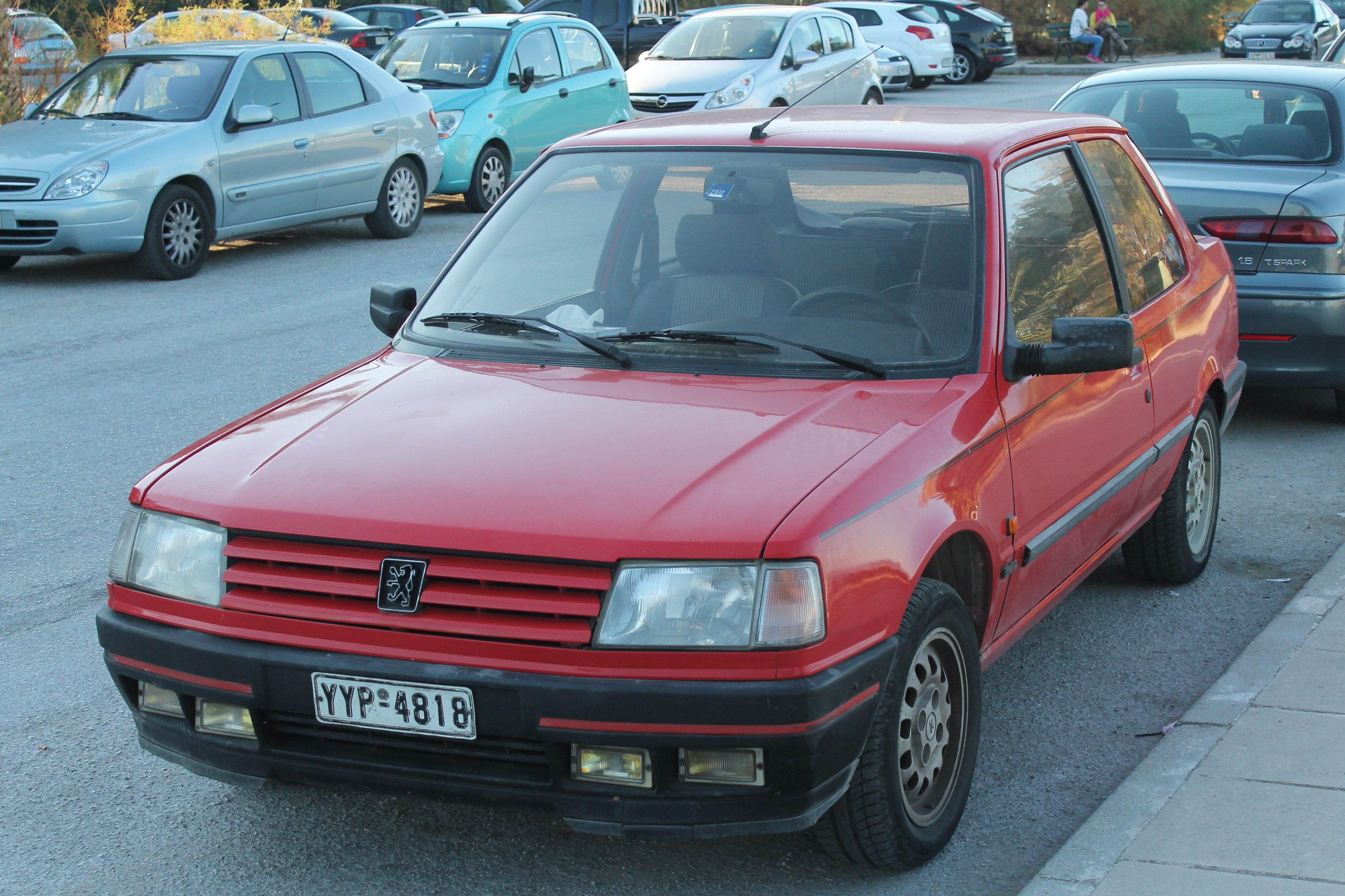 I think this is rather nice looking. Rare to see higher spec 309s these days, it would seem. This is a 3 door XR, which was not available in the UK. Not sure if the alloys are original, but I think they look good. Nice quadruple fog lights too.